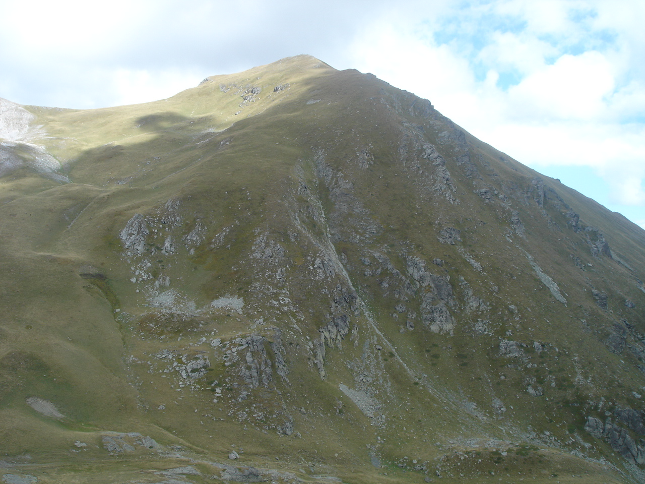 Greater Vraca peak on Shar Mountain, Macedonia